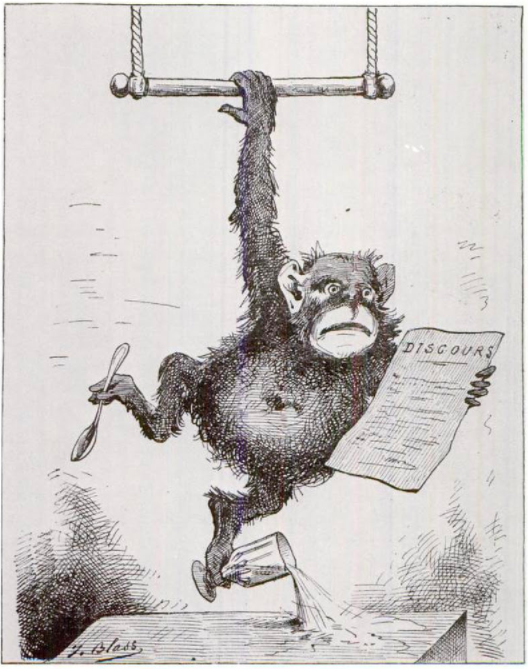 Caricature of Paul Broca and his belief in evolution. Drawn after he was made a Senator for Life. Published in Le Triboulet 15 February 1880. By J. Blass